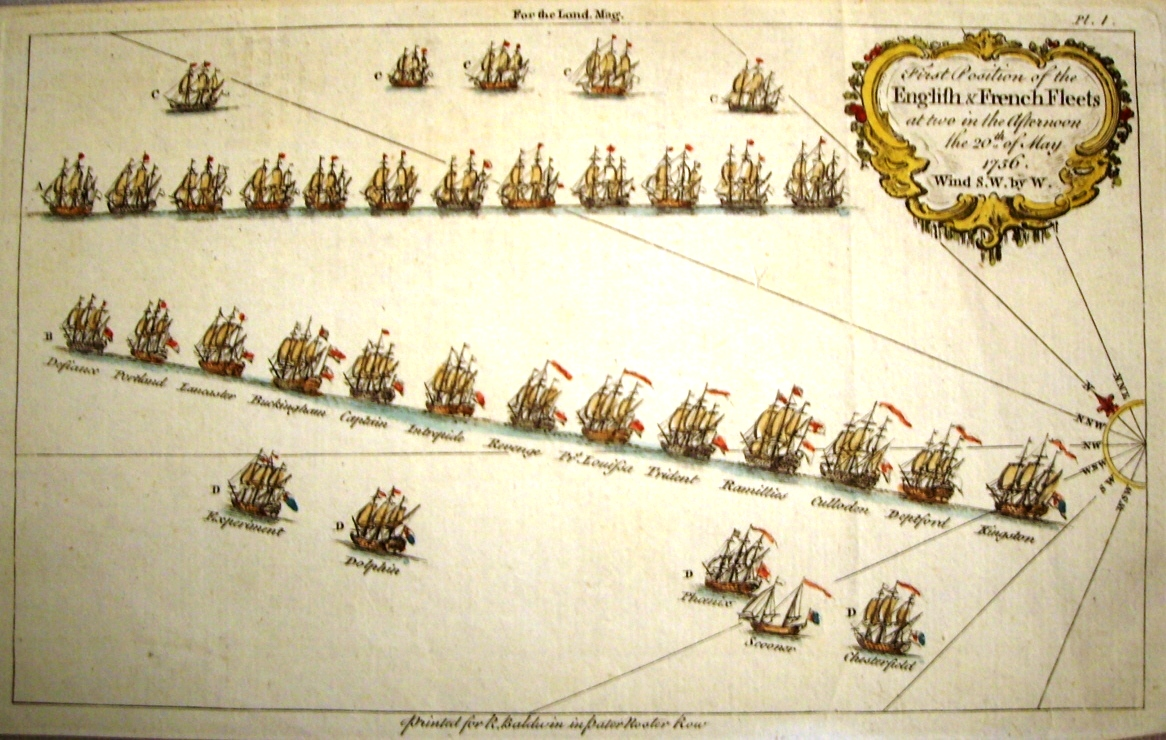 Early copper plate engraving 'First position of the English and French Fleets at two in the afternoon the 20th May 1756. This is the Battle of Minorca during the Seven Years War.